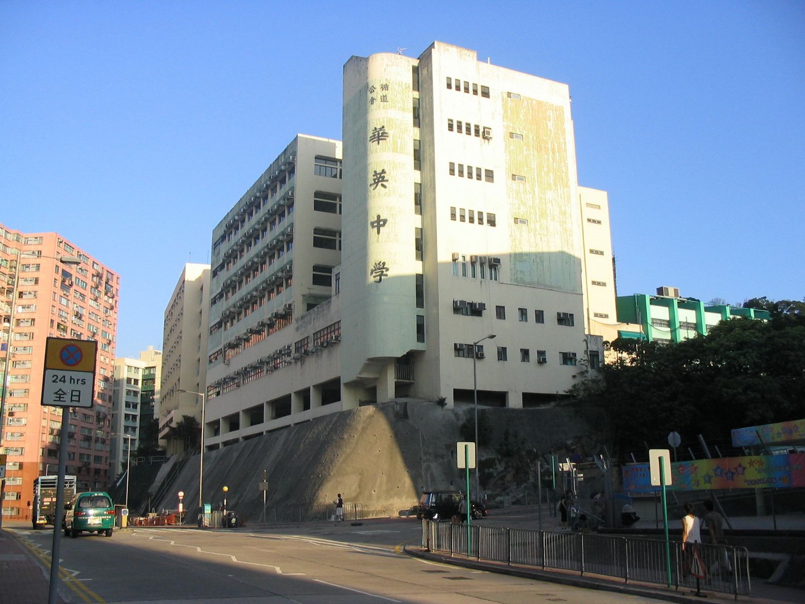 華英中學 Wa Ying College